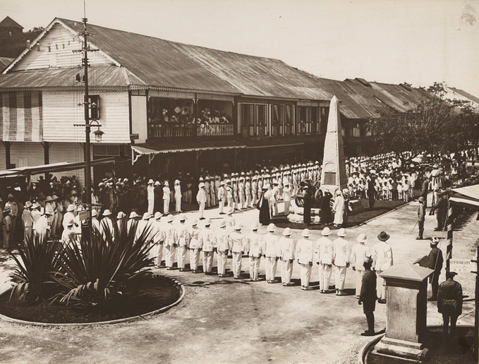 Description: No. 305 & S. 80/3. Dossier No. 332/5. North Borneo War Memorial. After the Unveiling. Location: Jesselton, Borneo Date: 08 May 1923 Our Catalogue Reference: Part of CO 1069-527-37. This image is part of the Colonial Office photographic collection held at The National Archives. Feel free to share it within the spirit of the Commons. Please use the comments section below the pictures to share any information you have about the people, places or events shown. We have attempted to provide place information for the images automatically but our software may not have found the correct location. For high quality reproductions of any item from our collection please contact our image library